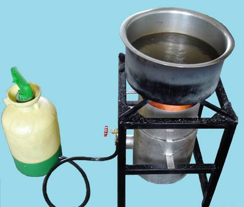 Forced draft gasifier stove without fan or blower, electricity, or battery. The 'forced draft' is created using steam. The stove is suited for commercial or institutional cooking. This is an innovation from Samuchit Enviro Tech (